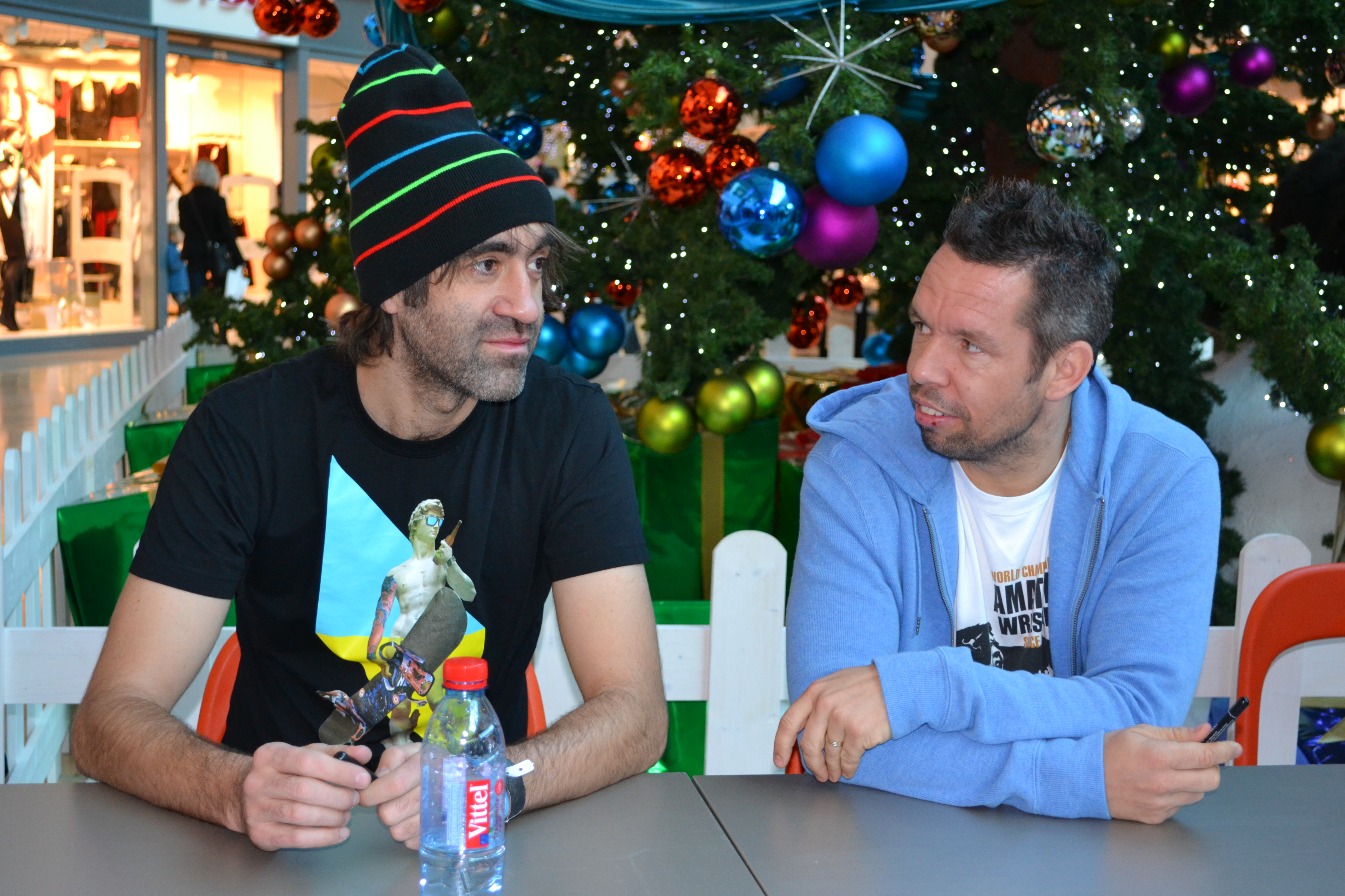 Jakub Kohák, Czech actor (left) and Pavel Horváth, Czech footballer